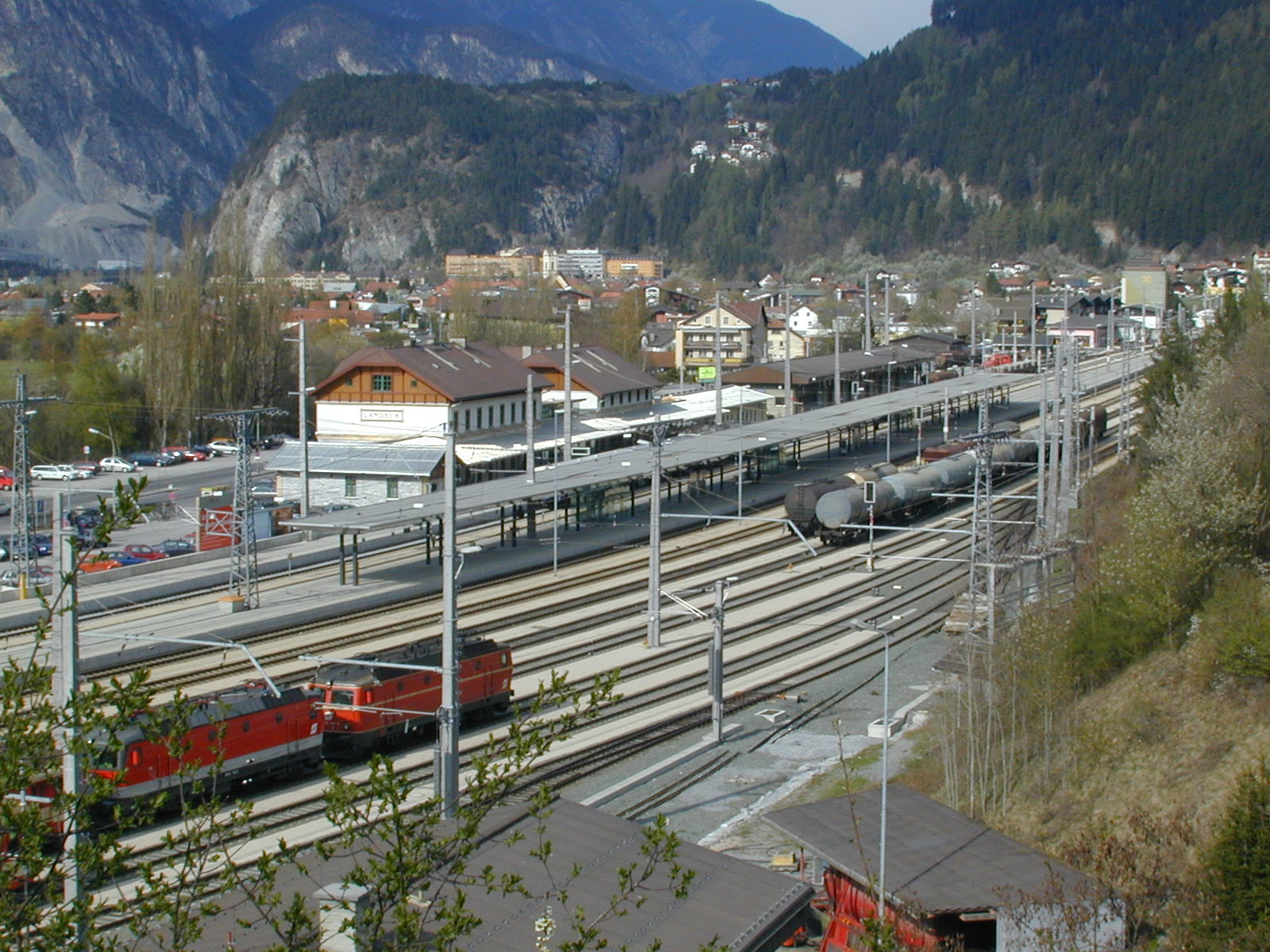 Landeck-Zams railway station